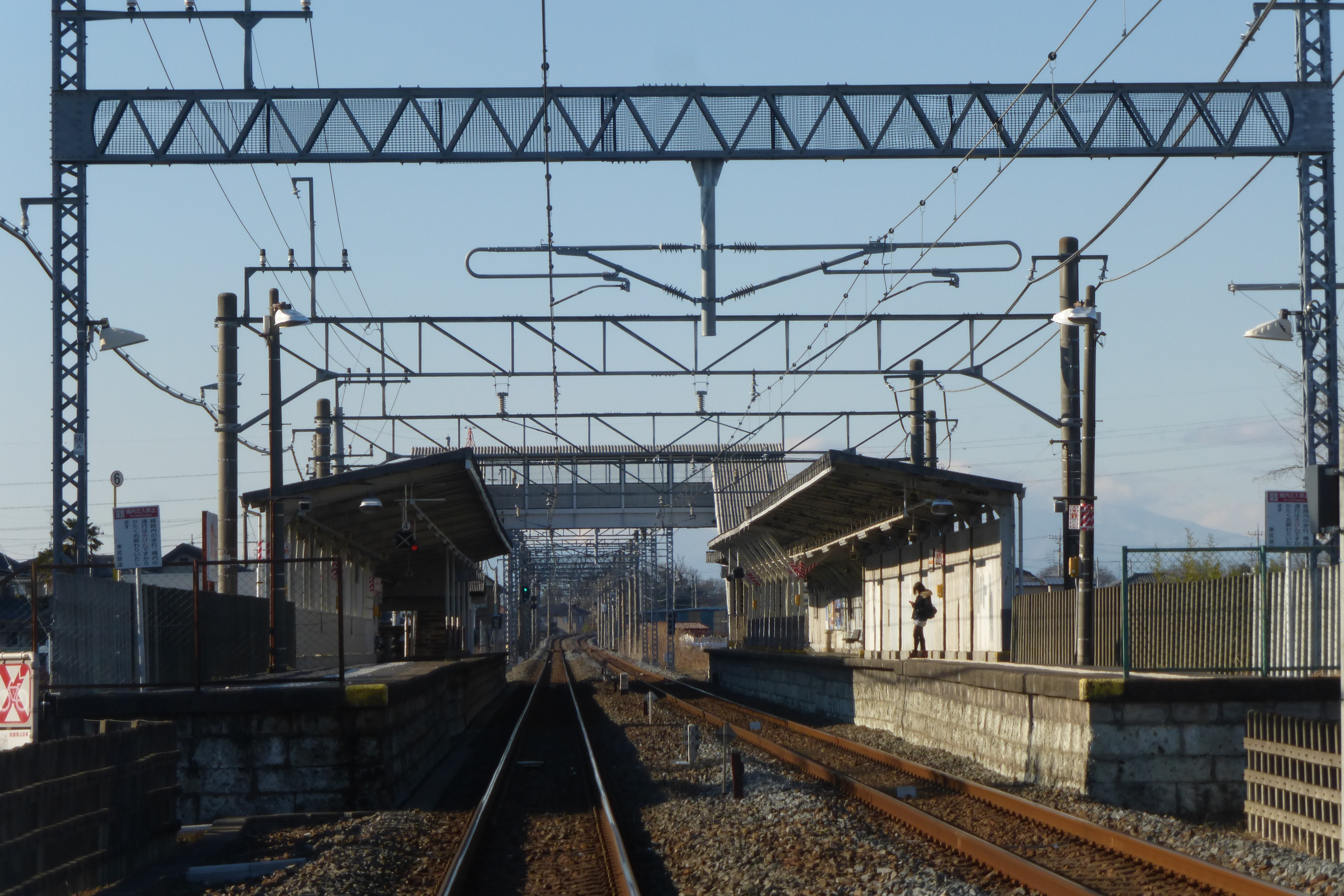 Yagyū Station platforms (柳生駅のホーム)